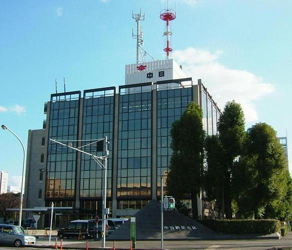 Photograph of the headquarters of Chunichi Shimbun in Nagoya, Aichi, Japan, taken on 10 January 2005 by original uploader.